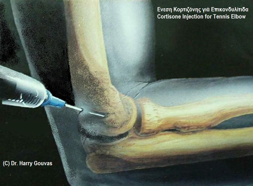 Cortisone injection for tennis elbow